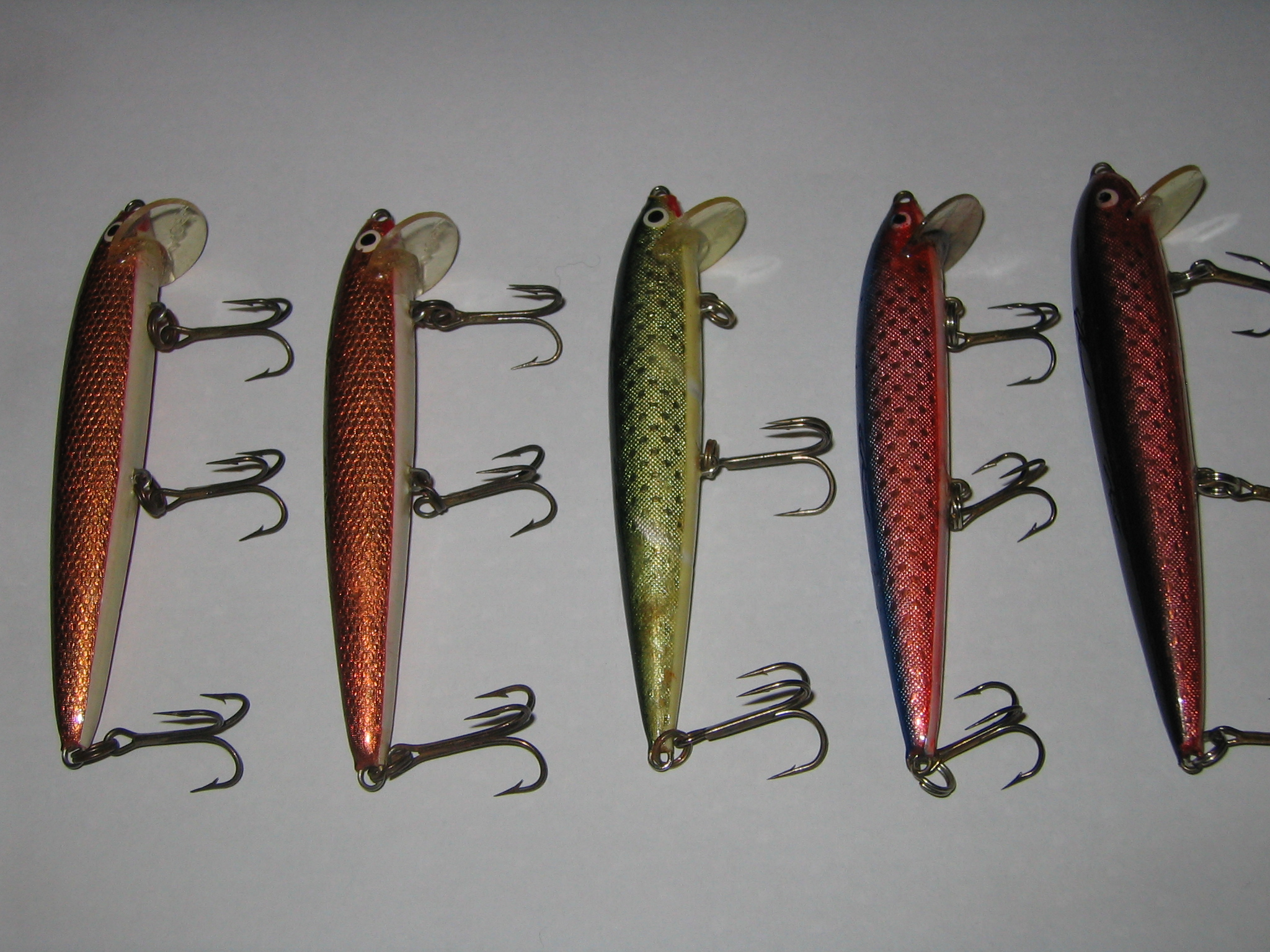 Original old LGH lures from Finland, all lures are MUIKKU -variations